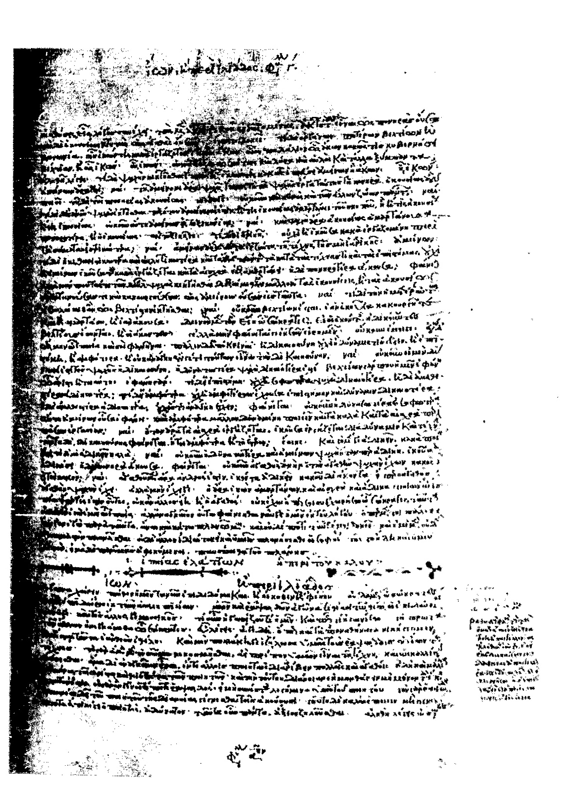 Laurentianus 85, 9 folium 200r.